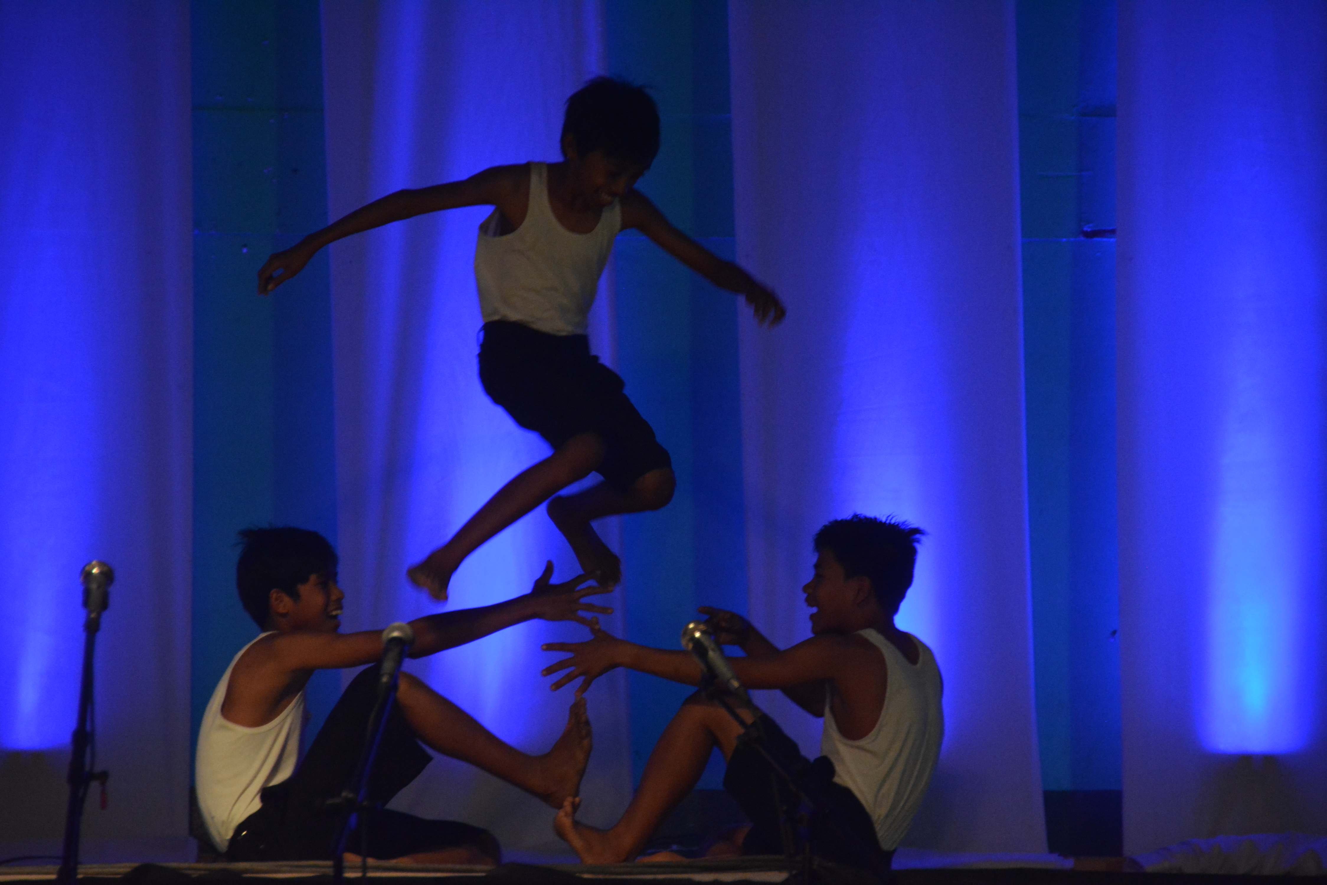 Traditional Game in Iriga City This Photo Taken in University of Northeastern Philippines